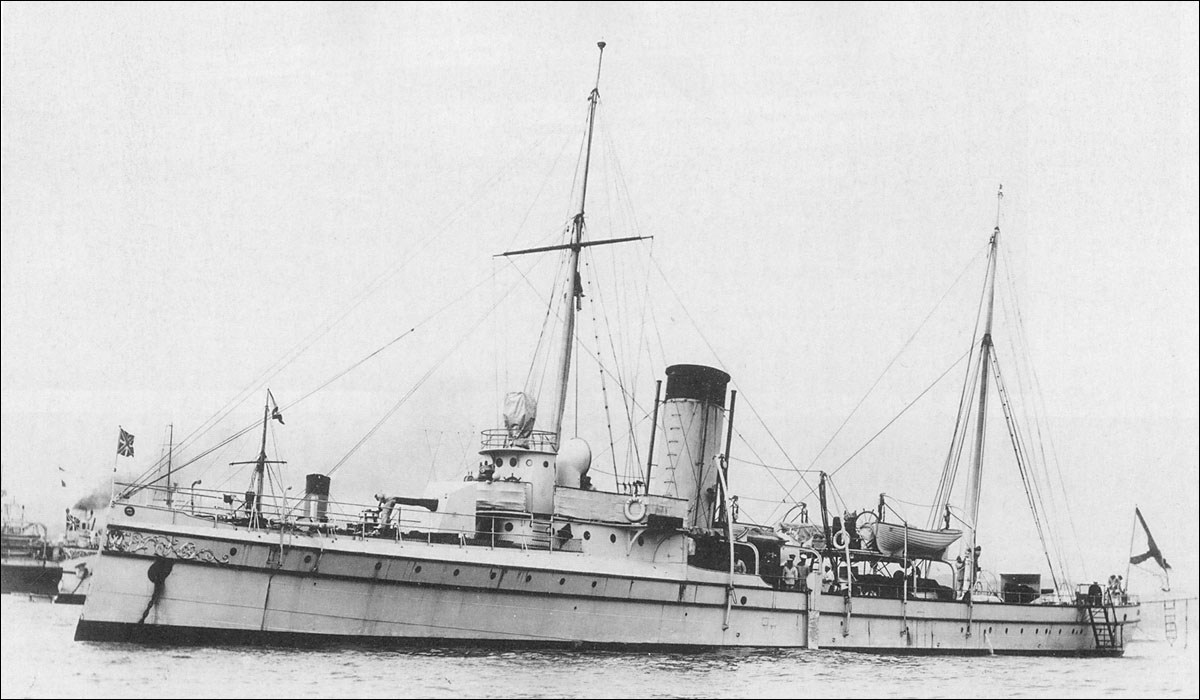 Imperial Russian torpedo cruiser Abrek at Toulon.